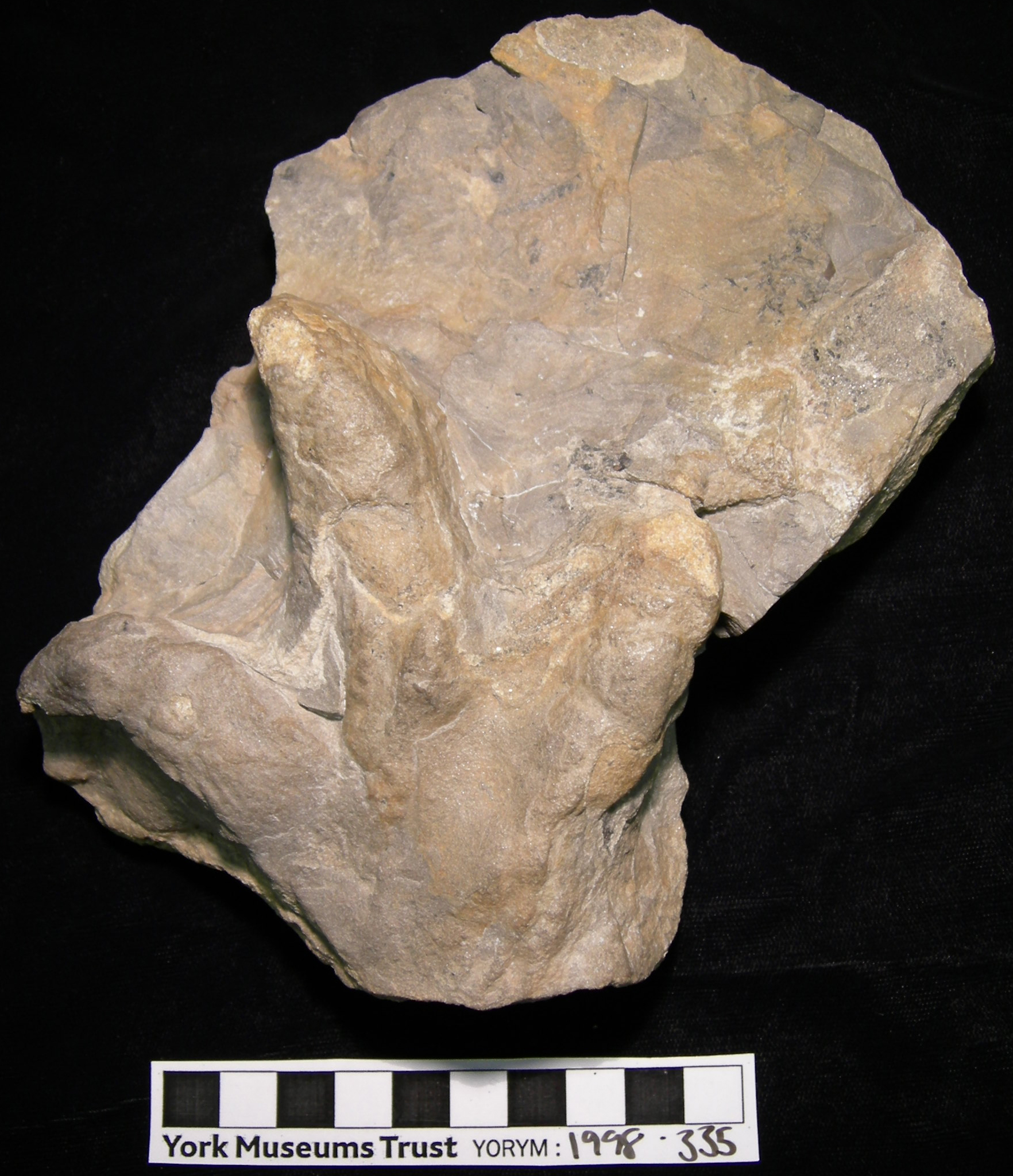 A tridactyl dinosaur footprint from an Ornithopod